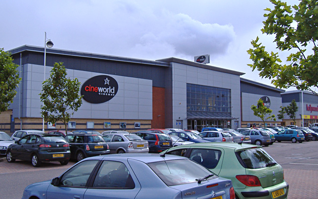 Cineworld cinema. One of Hull's two cinema multiplexes (the other is the 495042). This shares a site with a bowling complex and a number of chain restaurants.